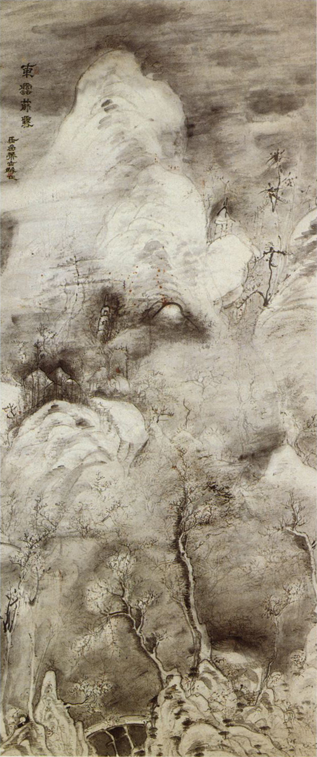 A landscape of the snow putting on the sieve in the freezing cloud (National treasure of Japan) 凍雲篩雪図（国宝）